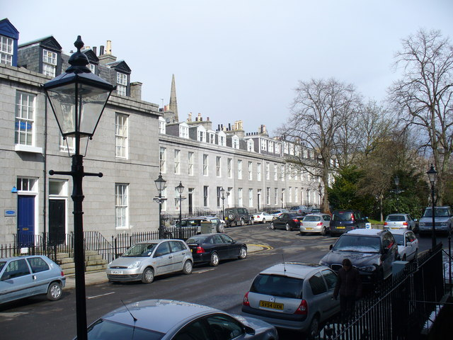 Bon Accord Square Granite City Aberdeen, designed by Archibald Simpson in 1823 for the Tailors' Incorporation. Originally these would have been houses but today are mainly occupied by offices. This is a conservation area.